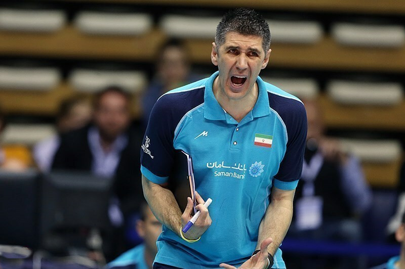 Italy defeated Iran in straight sets 3-0 (25-19, 25-22, 25-23) in the FIVB Volleyball World League 2014.